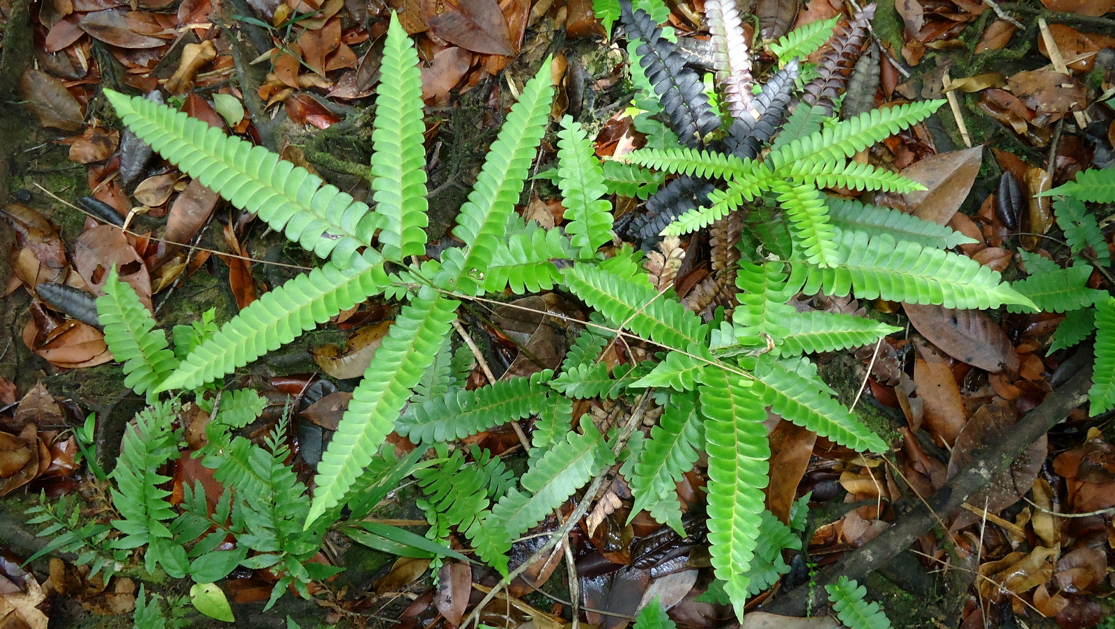 Lindsaea lancea (L.) Bedd.